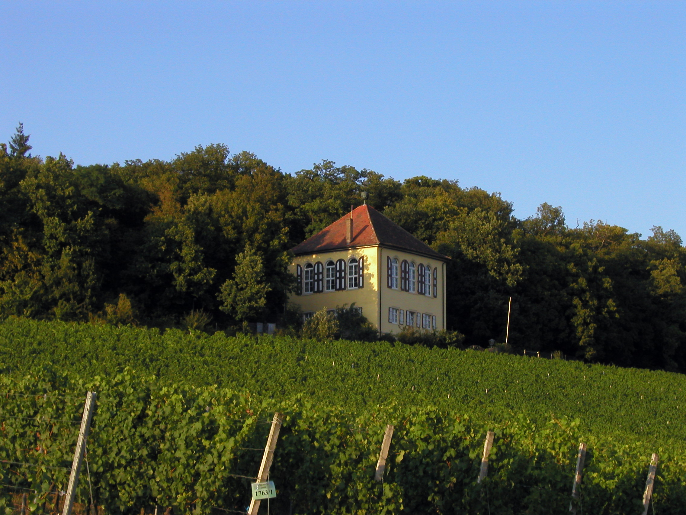 The Yellow House above the vineyards in Weikersheim